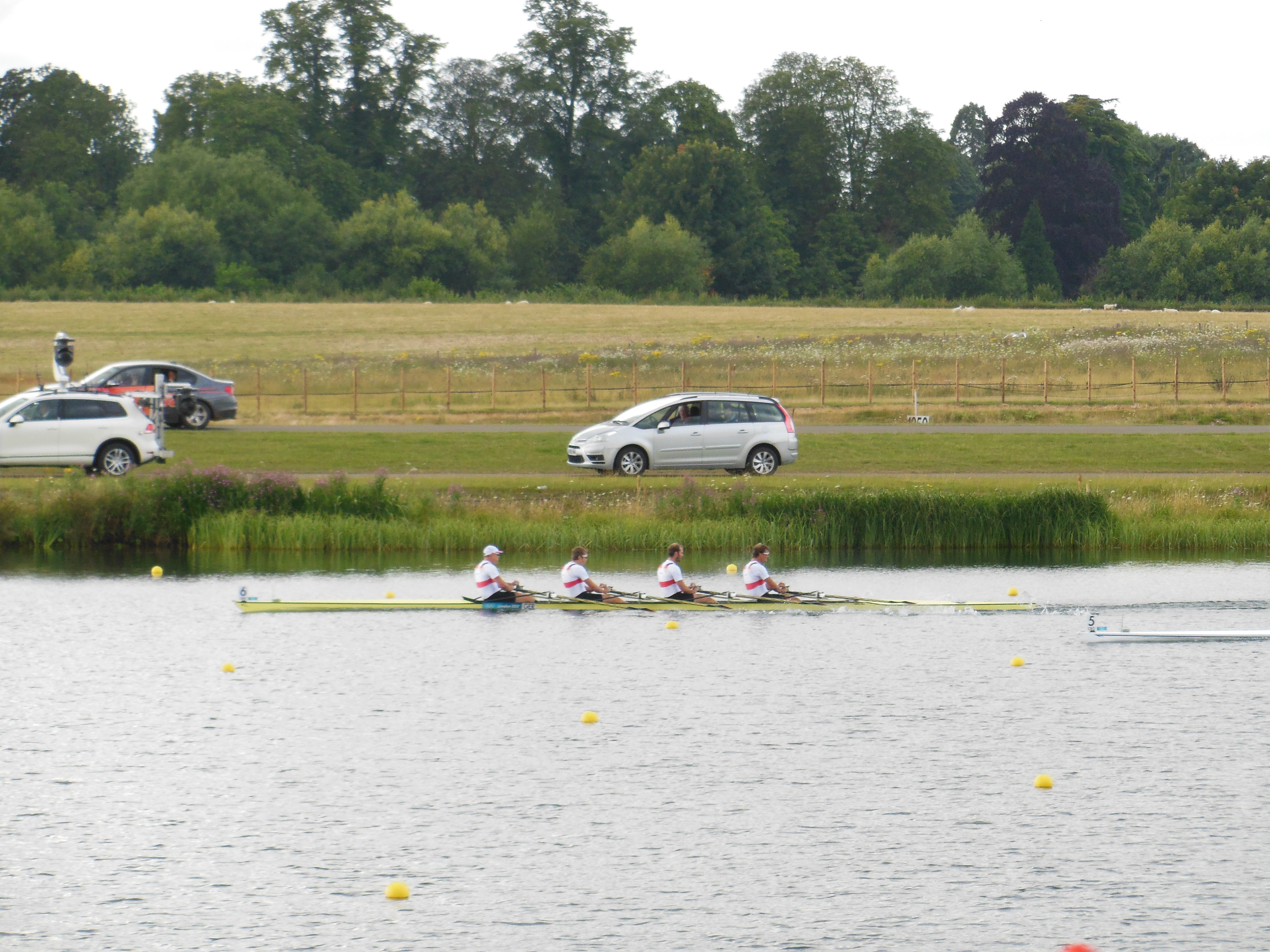 Schulze, Wende, Schoof, Grohmann Germany 5:42.48 02 ! Šain, Sinković, Martin, Sinković Croatia 5:44.78 03 ! Morgan, Forsterling, McRae, Noonan Australia 5:45.22 4 Jämsä, Raja, Endrekson, Taimsoo Estonia 5:46.96 5 Rowbotham, Cousins, Solesbury, Wells Great Britain 5:49.19 6 Wasielewski, Kolbowicz, Jeliński, Korol Poland 5:51.74